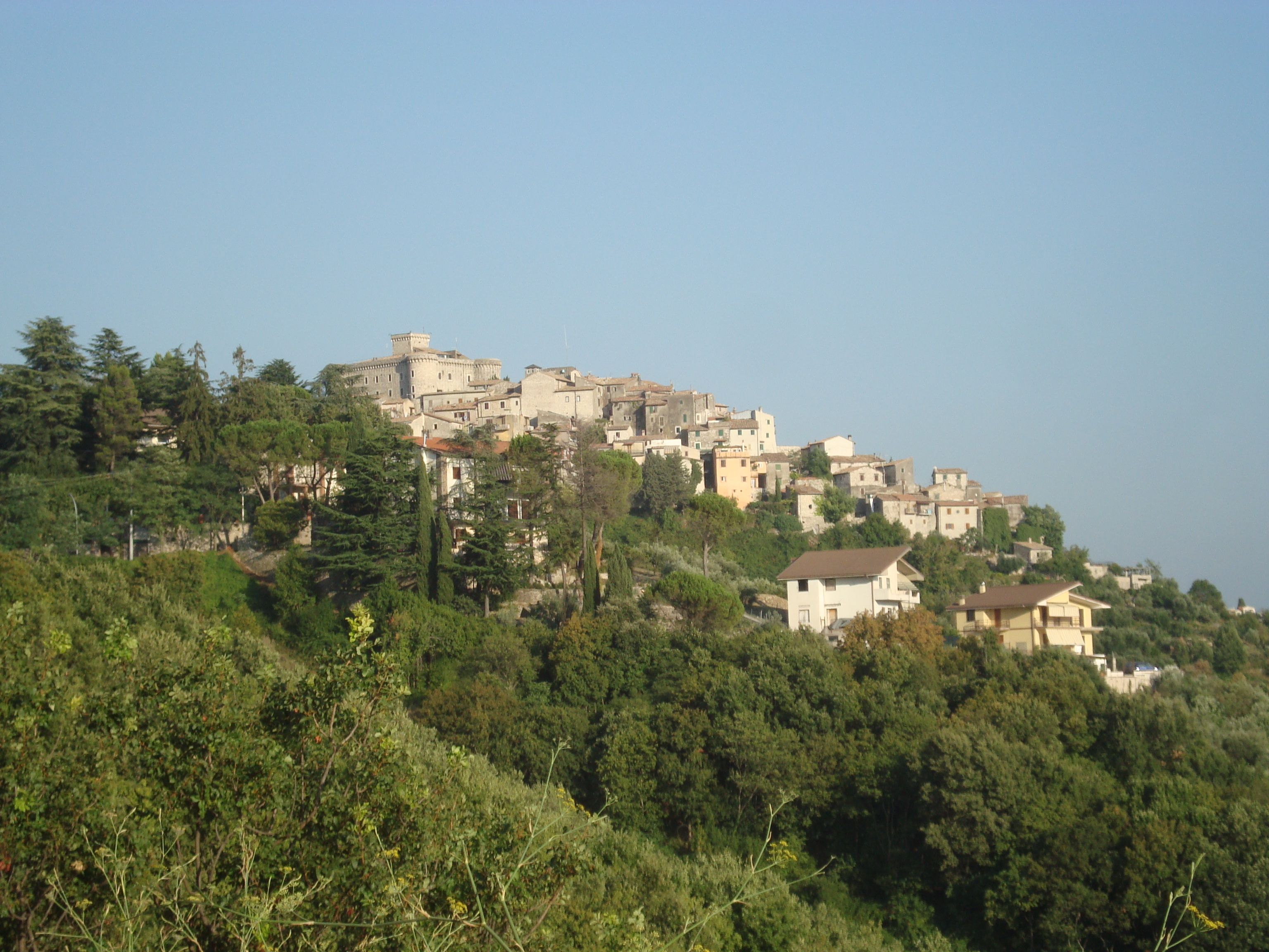 General view of San Polo dei Cavalieri, Lazio, Italy.